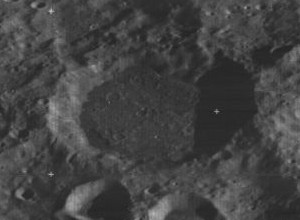 Oblique view of Rosseland crater, on the far side of the moon, facing roughly south.